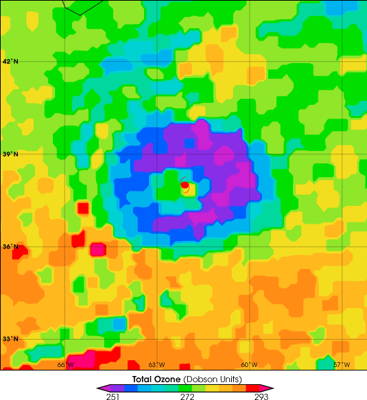 Ozone Around Hurricane Erin -- This image shows the distribution of total ozone in and around Hurricane Erin on 12 September, 2001. Erin is represented in the middle of the image by a red dot with two "arms." The ozone level within the center of the hurricane is high (depicted in green). Surrounding the hurricane are lower levels of total ozone (depicted in blue). Within the core of the hurricane there is a weak downward motion which brings down ozone rich air from the upper atmosphere into the core of hurricane and therefore increases the total ozone there, while upward lift of atmosphere is dominant surrounding the hurricane eyewall.